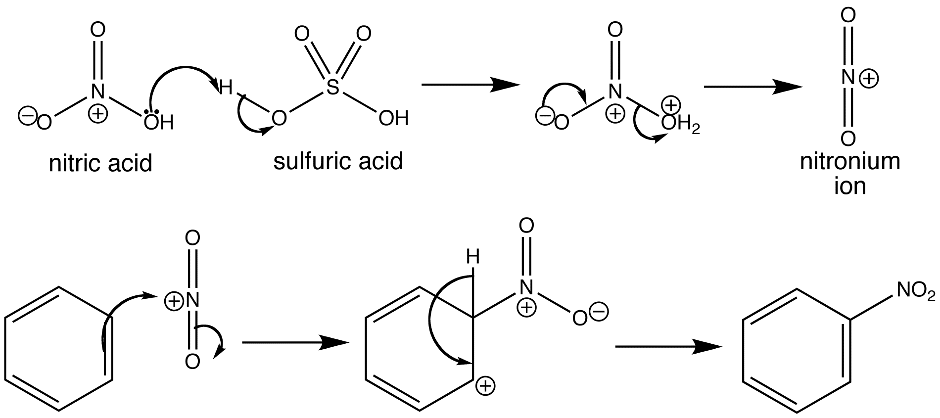 Mechanism of Nitration of Benzene